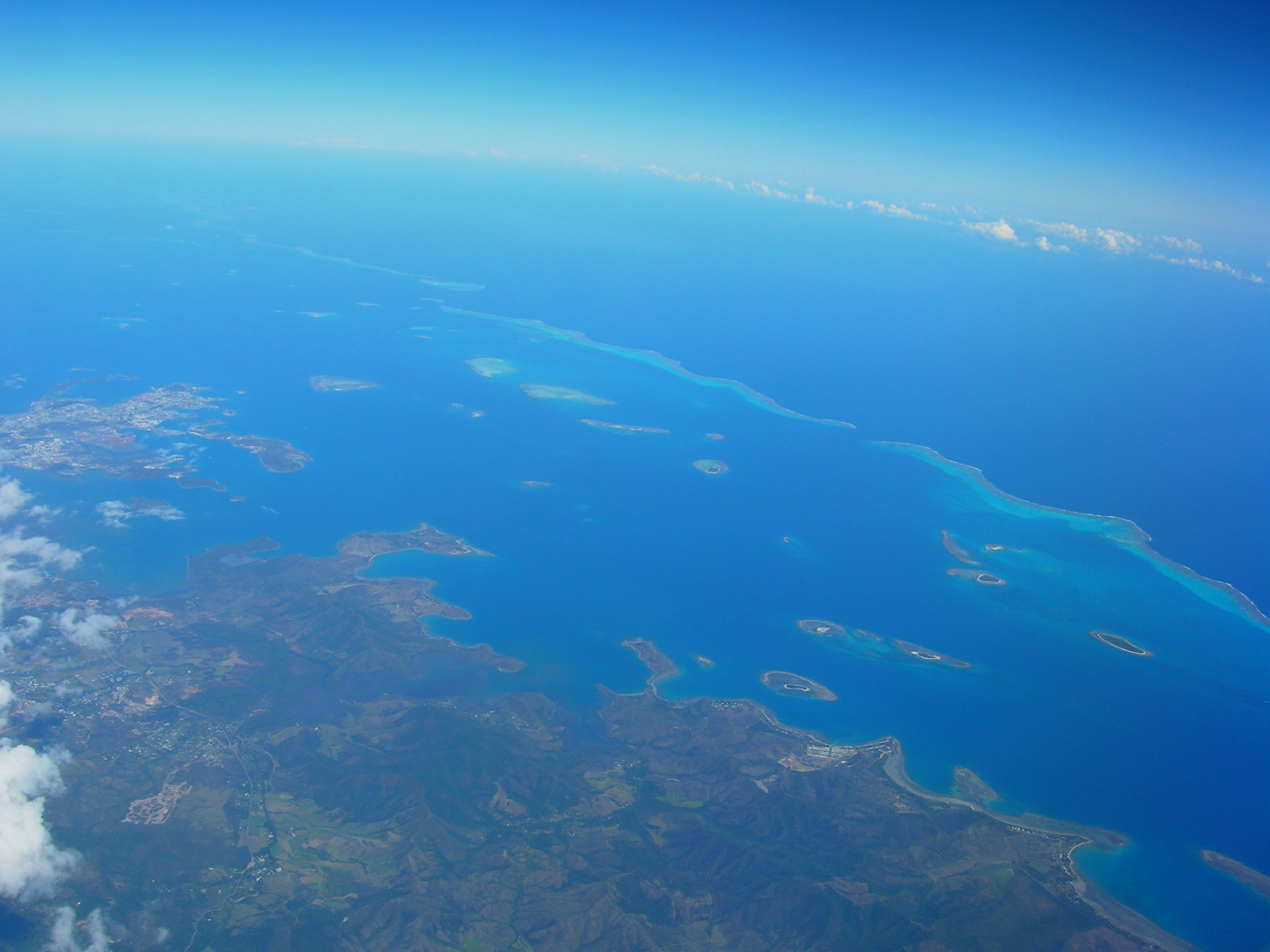 Coast of Noumea